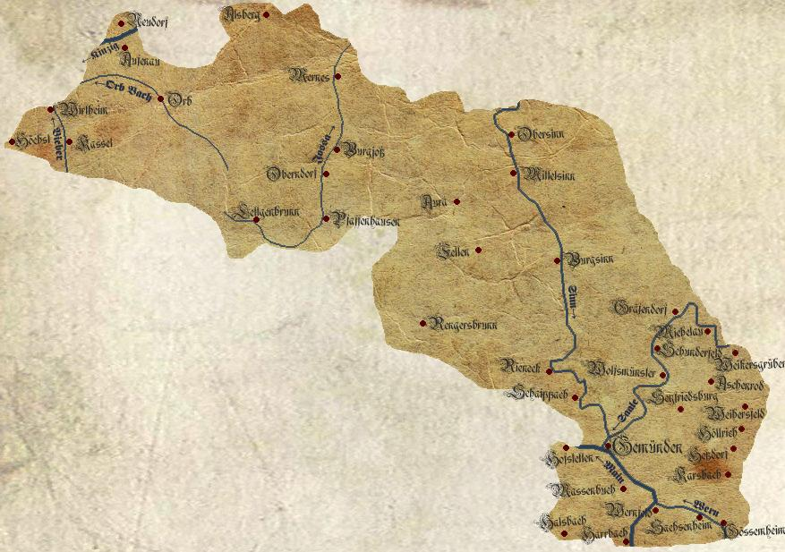 Management area of the bavarian Bezirksamt Gemünden in 1865. Traced from the Topographischer Atlas vom Königreiche Baiern diesseits des Rhein Blatt: 10. Orb